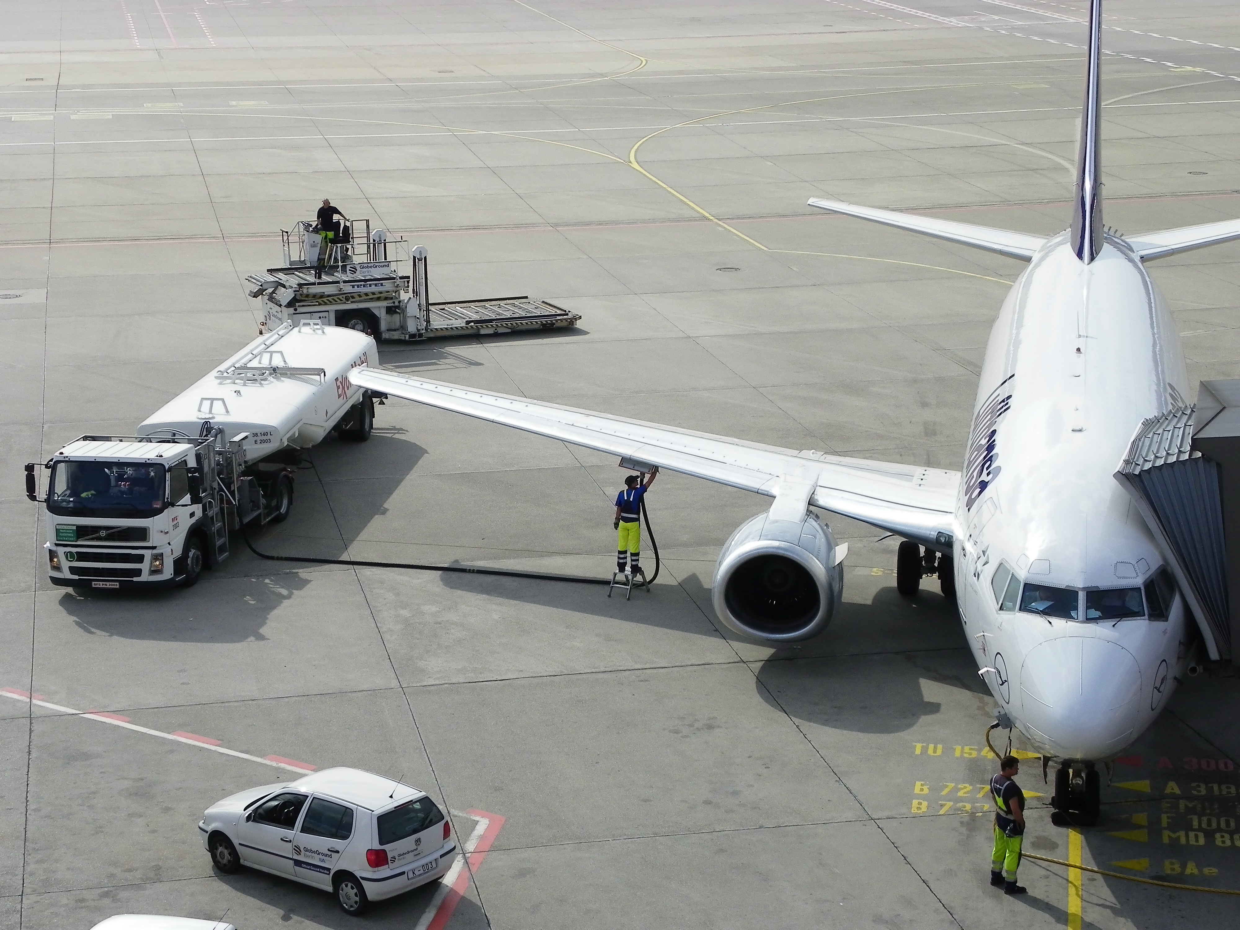 Airport tank truck.